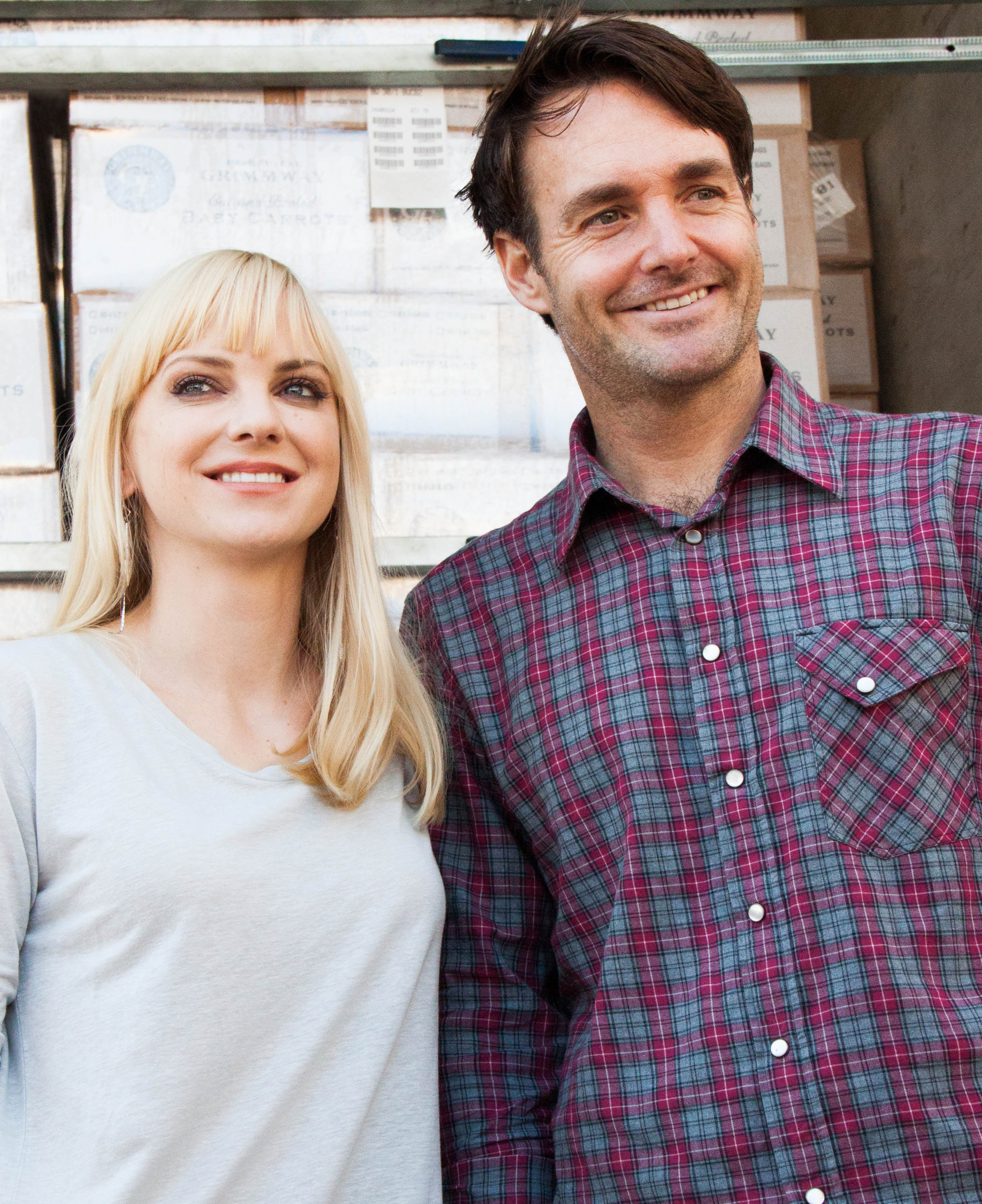 Casts Anna Faris and Will Forte from the movie "Cloudy With A Chance Of Meatballs 2" joined 100 children from YMCA volunteered at the L.A. Regional Food Bank helping load and sort combined 80,000 pounds of food in response to Feed America's Hunger Action Month. Photo by Xizi (Cecilia) Hua.